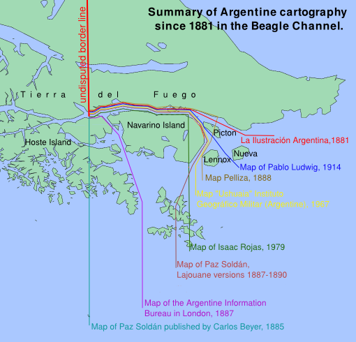 Summary of Argentine cartography of the Beagle channel zone